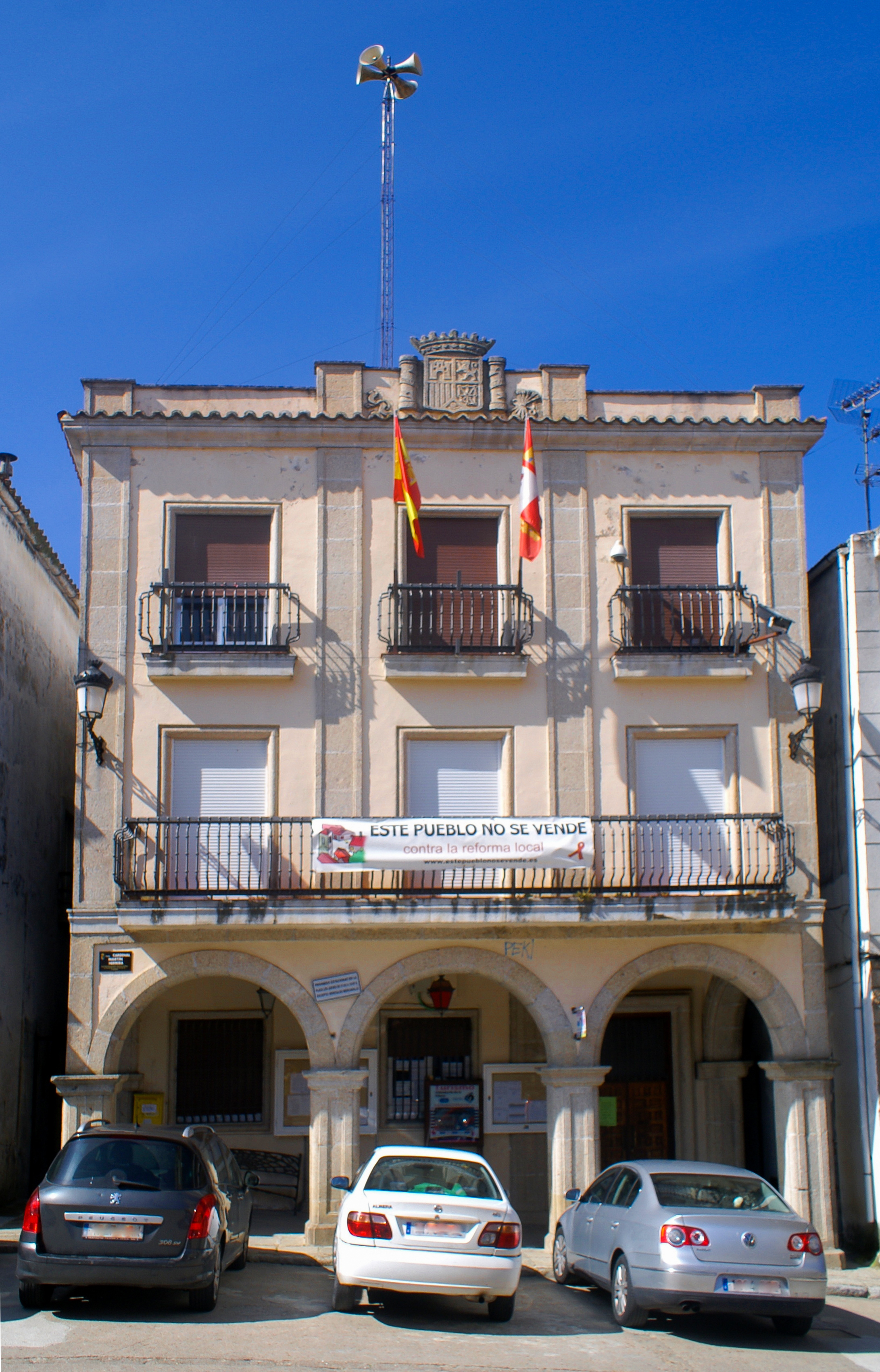 Town hall in Aldeadávila de la Ribera, Salamanca, Spain.